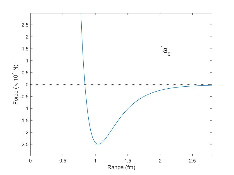 Force of the 1S0 state of the nuclear force as computed according to equations by Reid, R.V. (1968). "Local phenomenological nuclean-nucleon potentials". Annals of Physics 50: 411–448; with F=-dV/dr and converting MeV/fm to Newtons.